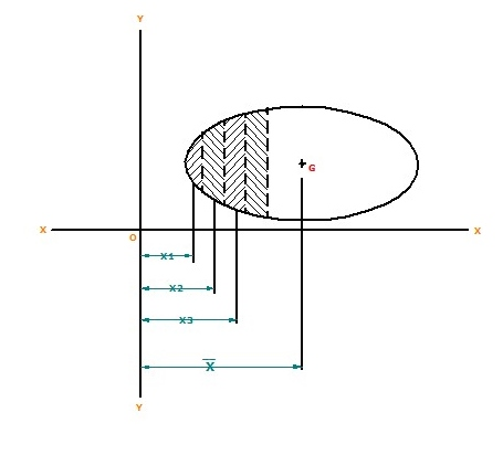 Center of gravity by Moments. ಕನ್ನಡ: ಮೊಮೆಂಟ್‍ಗಳ ವಿಧಾನದಿಂದ ಗುರುತ್ವ ಕೇಂದ್ರ.